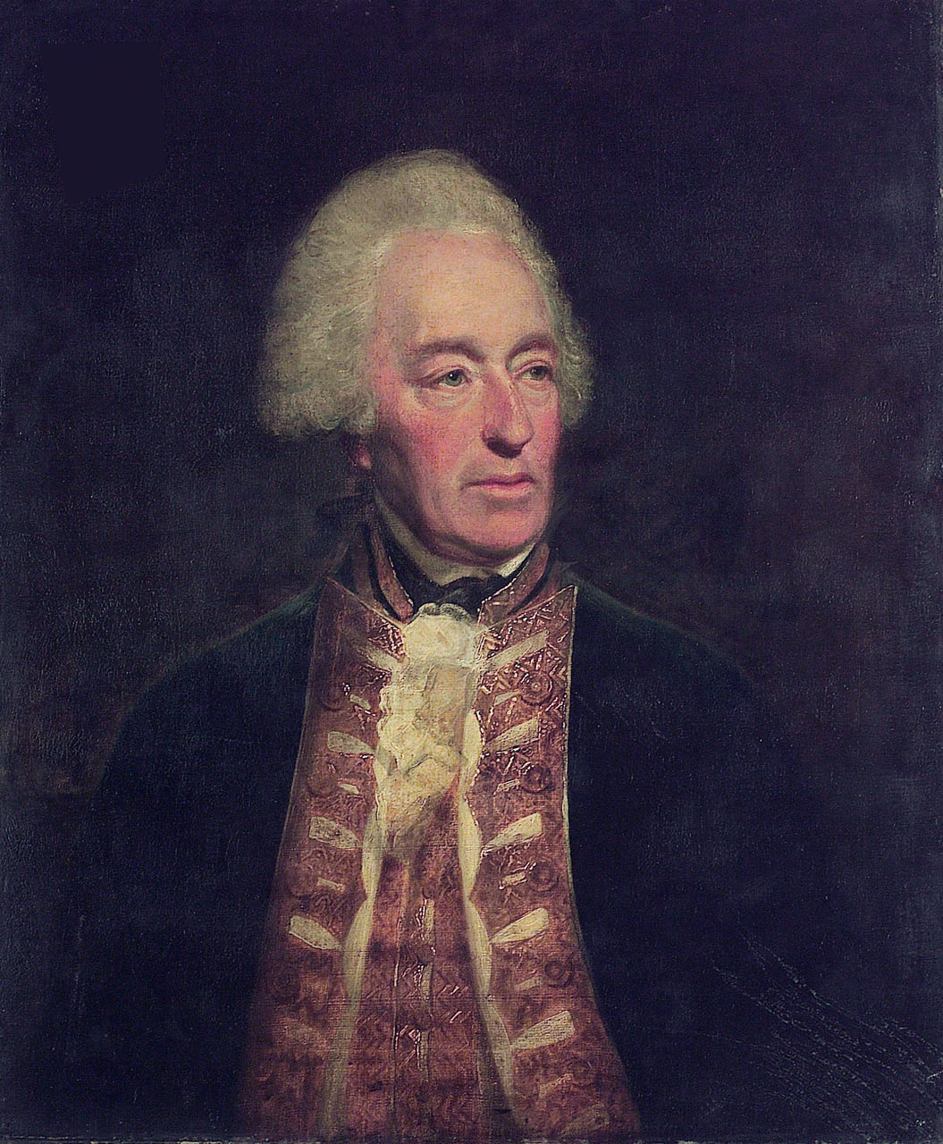 A half-length portrait depicting Admiral Robert Roddam, 1719-1808, facing to the right. He wears a flag officer's full-dress uniform, 1767-83, and a wig.